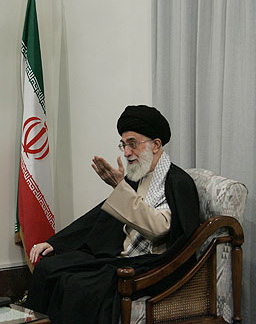 TEHRAN. With Ayatollah Sayed Ali Khamenei.